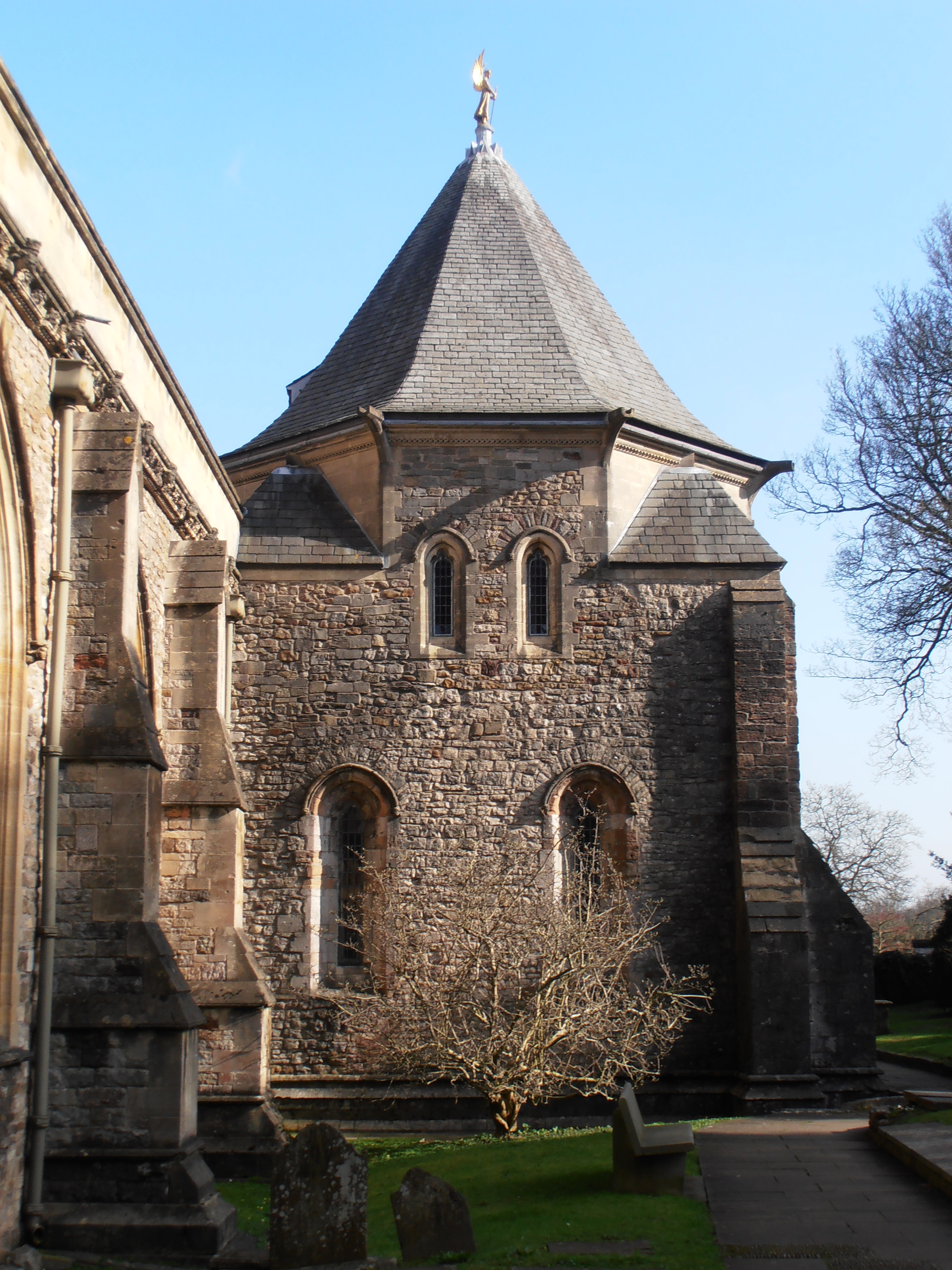 Chapter House, Llandaff Cathedral